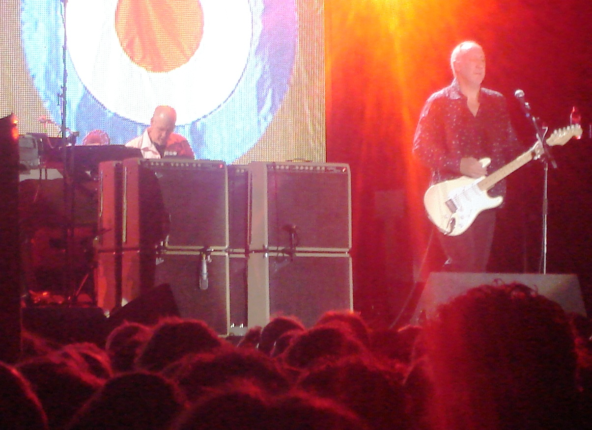 The Who performing at the Rotterdam Ahoy'